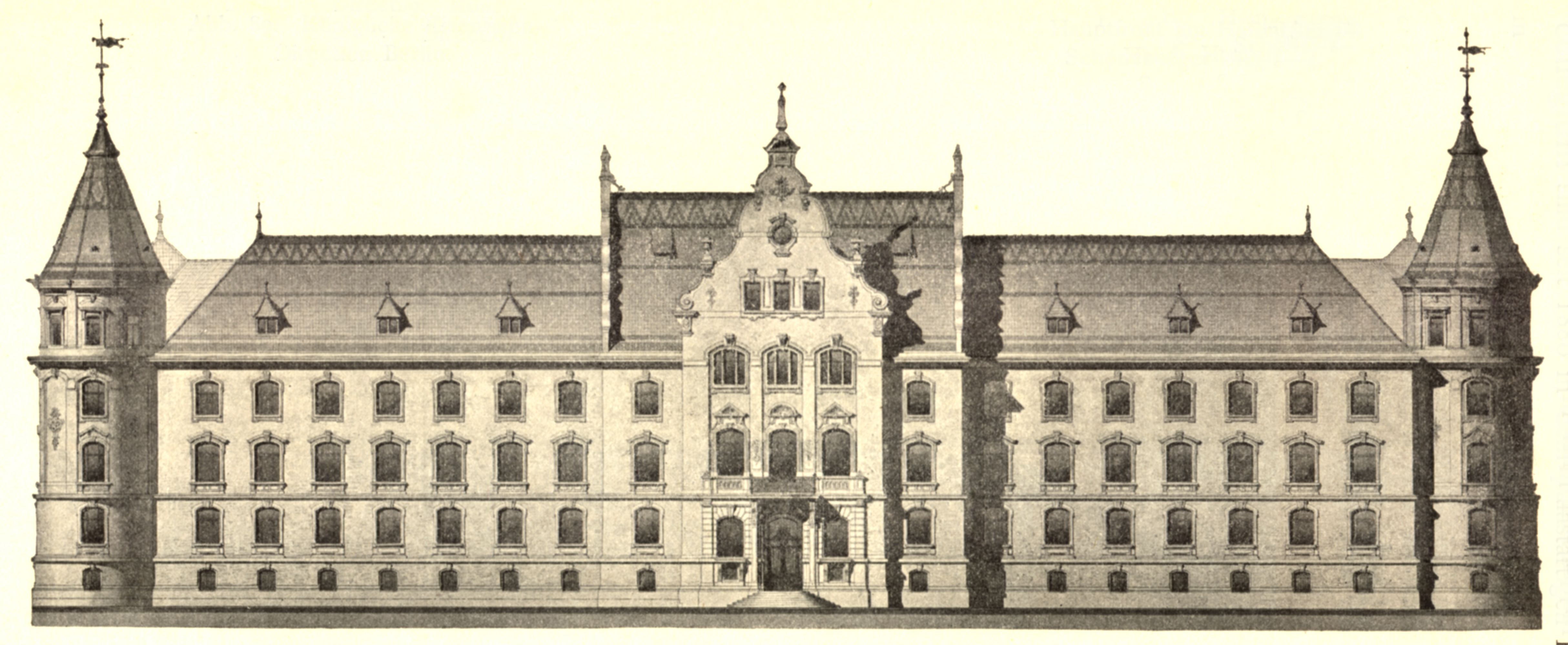 Berlin - Königliche Eisenbahndirektion, facade